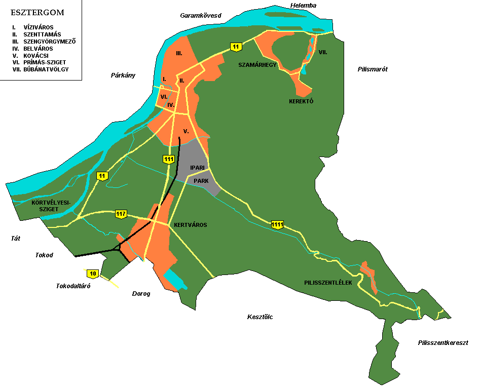 A map of Esztergom, Hungary showing neighbouring cities & villages.